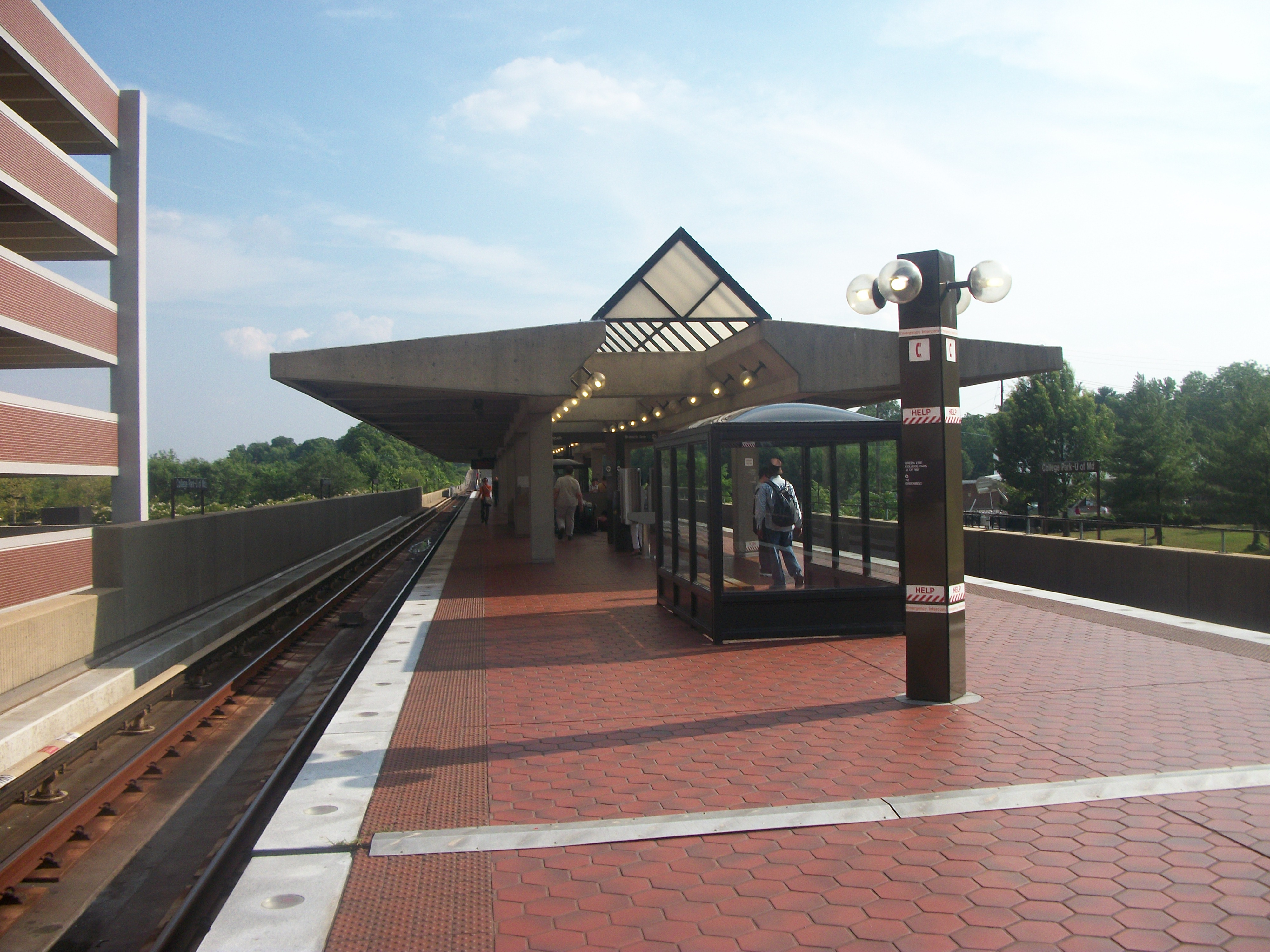 The platform of College Park – University of Maryland in College Park.